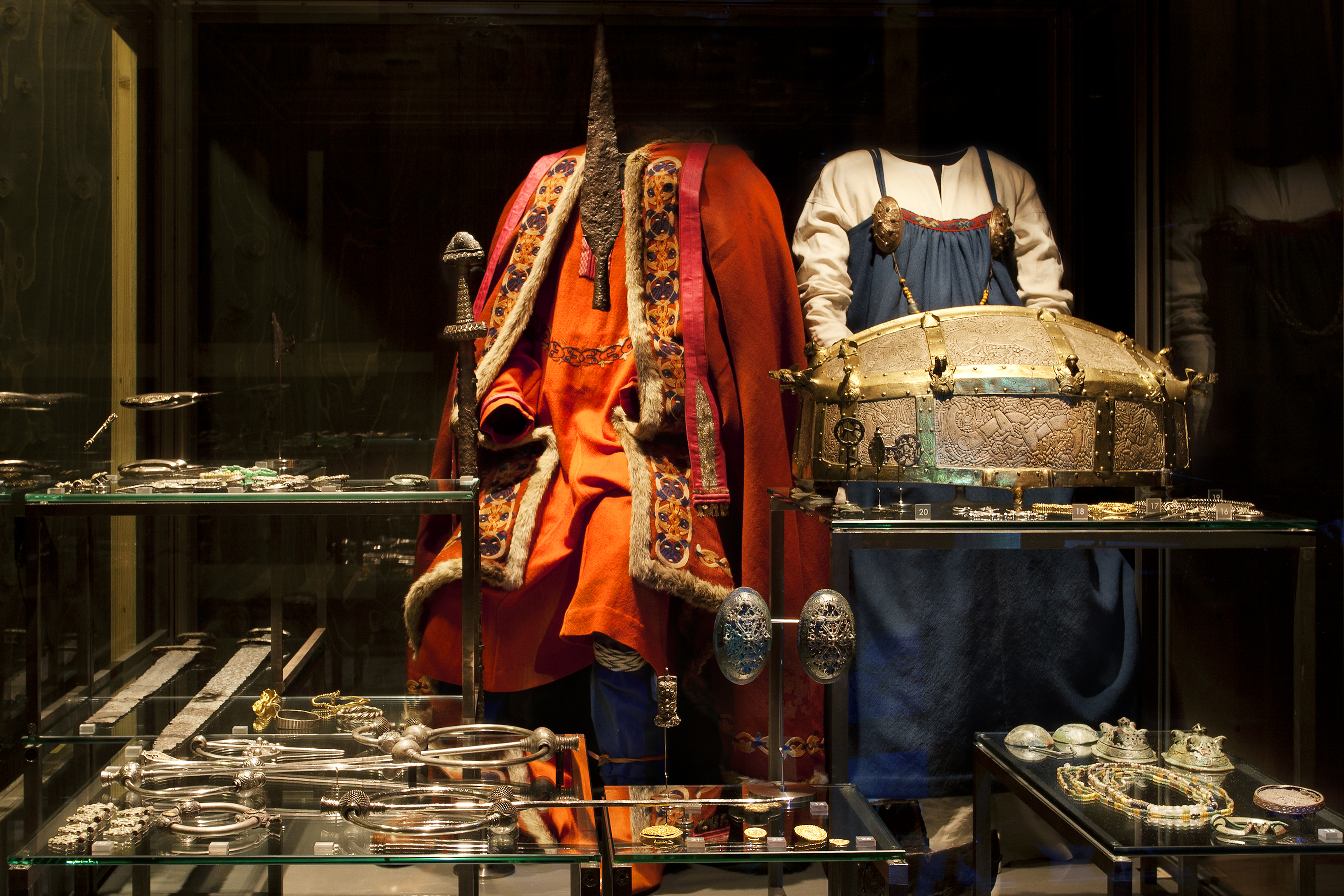 Press photos - VIKING exhibition - the National Museum of Denmark 22 juni - 17 november 2013.